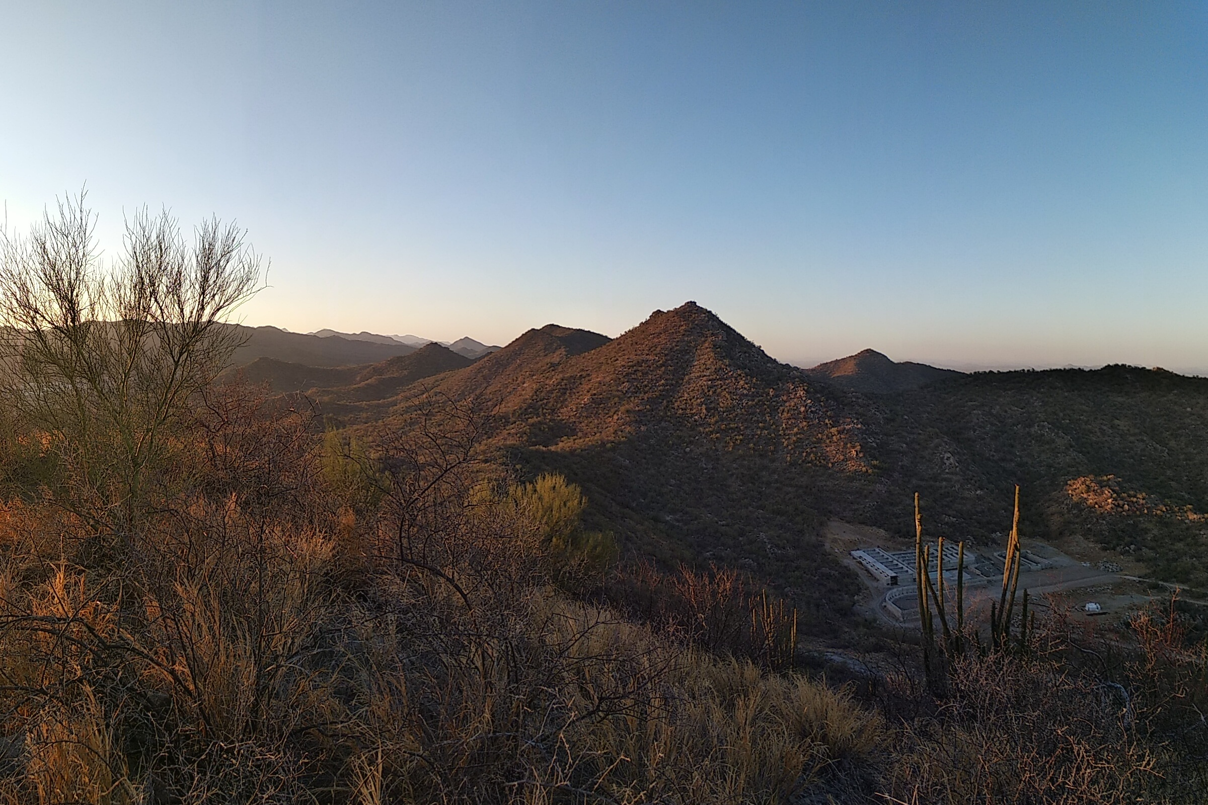 El Bachoco visto desde El Cerrato.